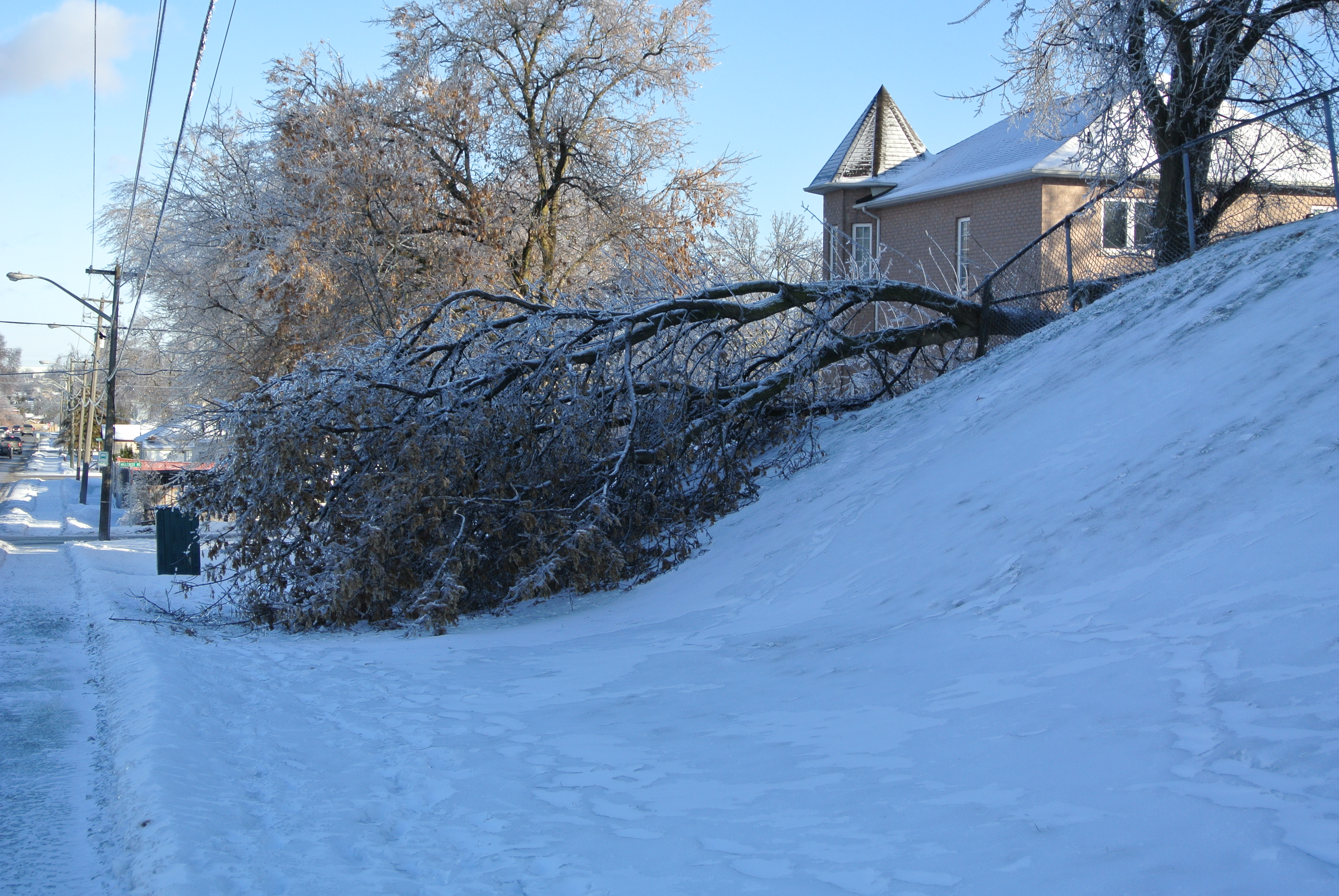 DSC_1024 Fallen trees in Pickering, Ontario.